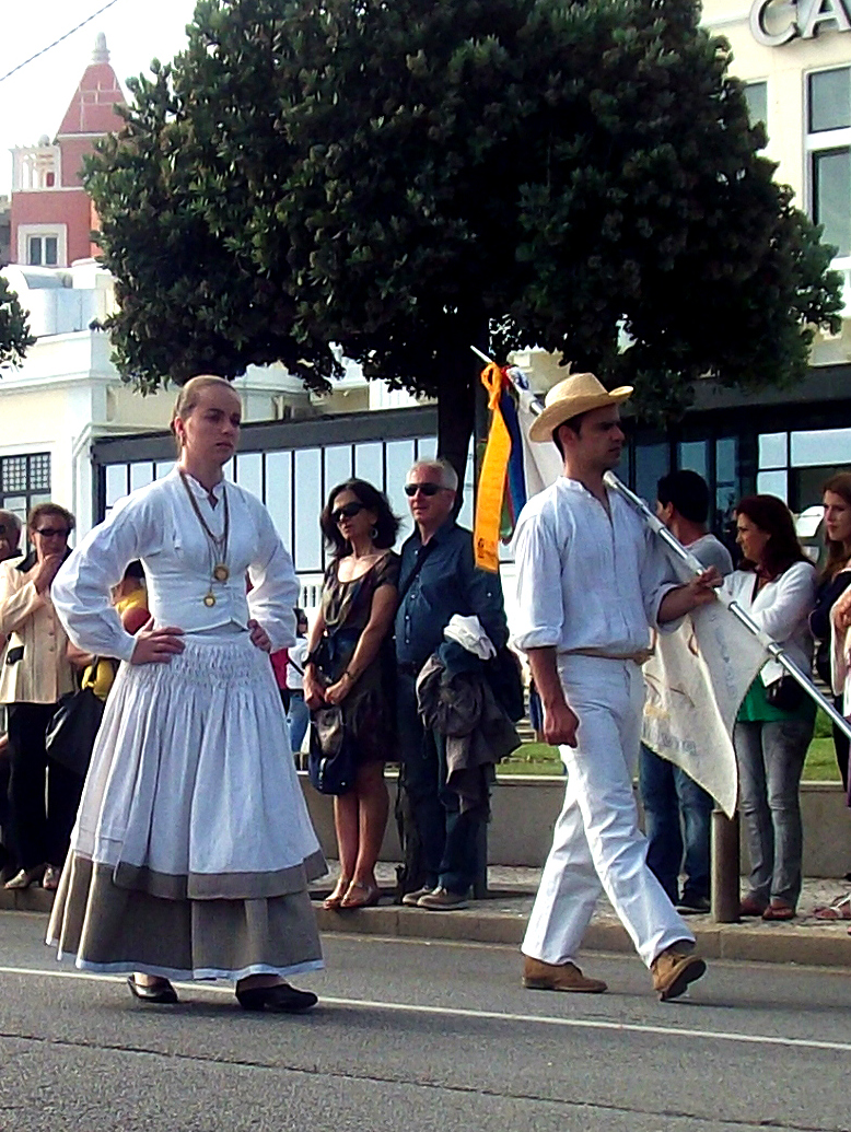 Lavrador representation (pronounced Labrador) farmers from Póvoa de Varzim during Saint Peter Procession during Póvoa de Varzim Holiday.